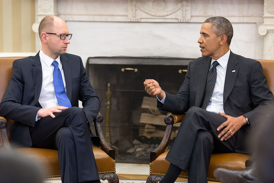 President Barack Obama holds a bilateral meeting with Prime Minister Arseniy Yatsenyuk of Ukraine in the Oval Office, March 12, 2014. (Official White House Photo by Pete Souza)